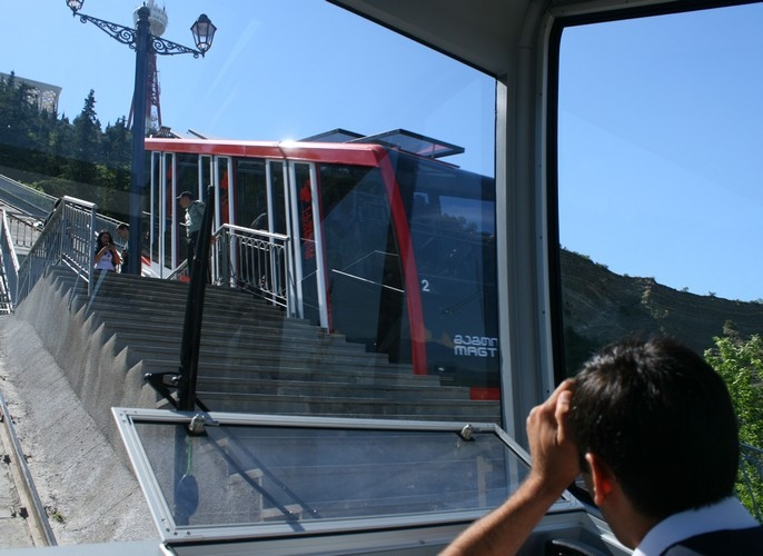 Tbilisi Funicular new car on its way